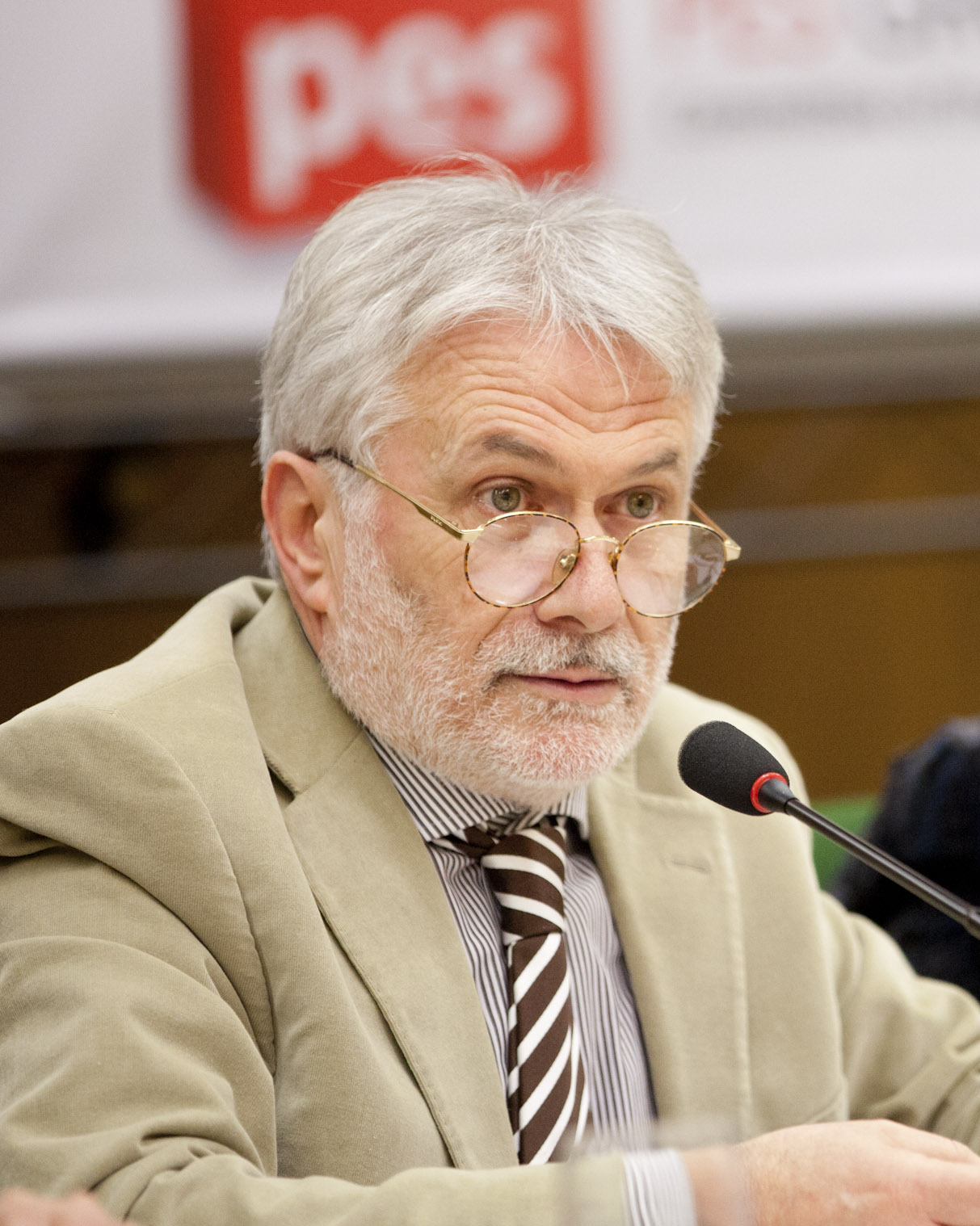 Raffaele Nigro, moderator (RAI Puglia)